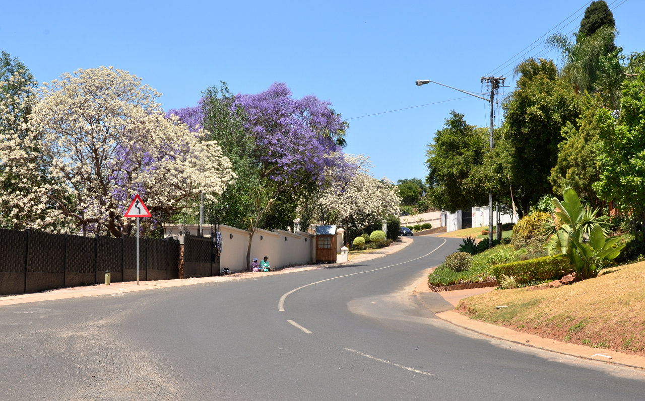 White jacaranda trees in Herbert Baker Street, Groenkloof, Pretoria